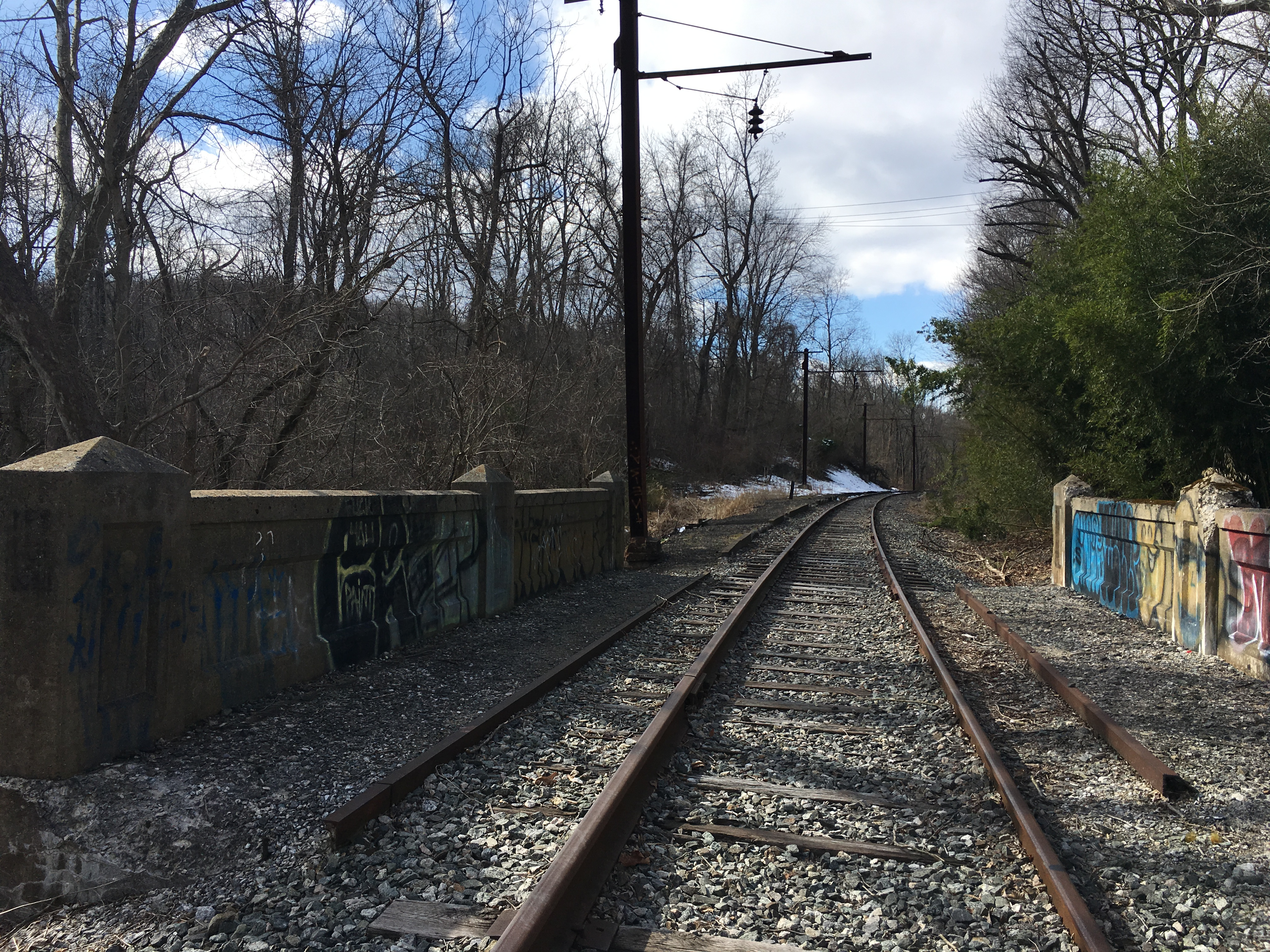 Looking down former Darlington station towards West Chester in 2017